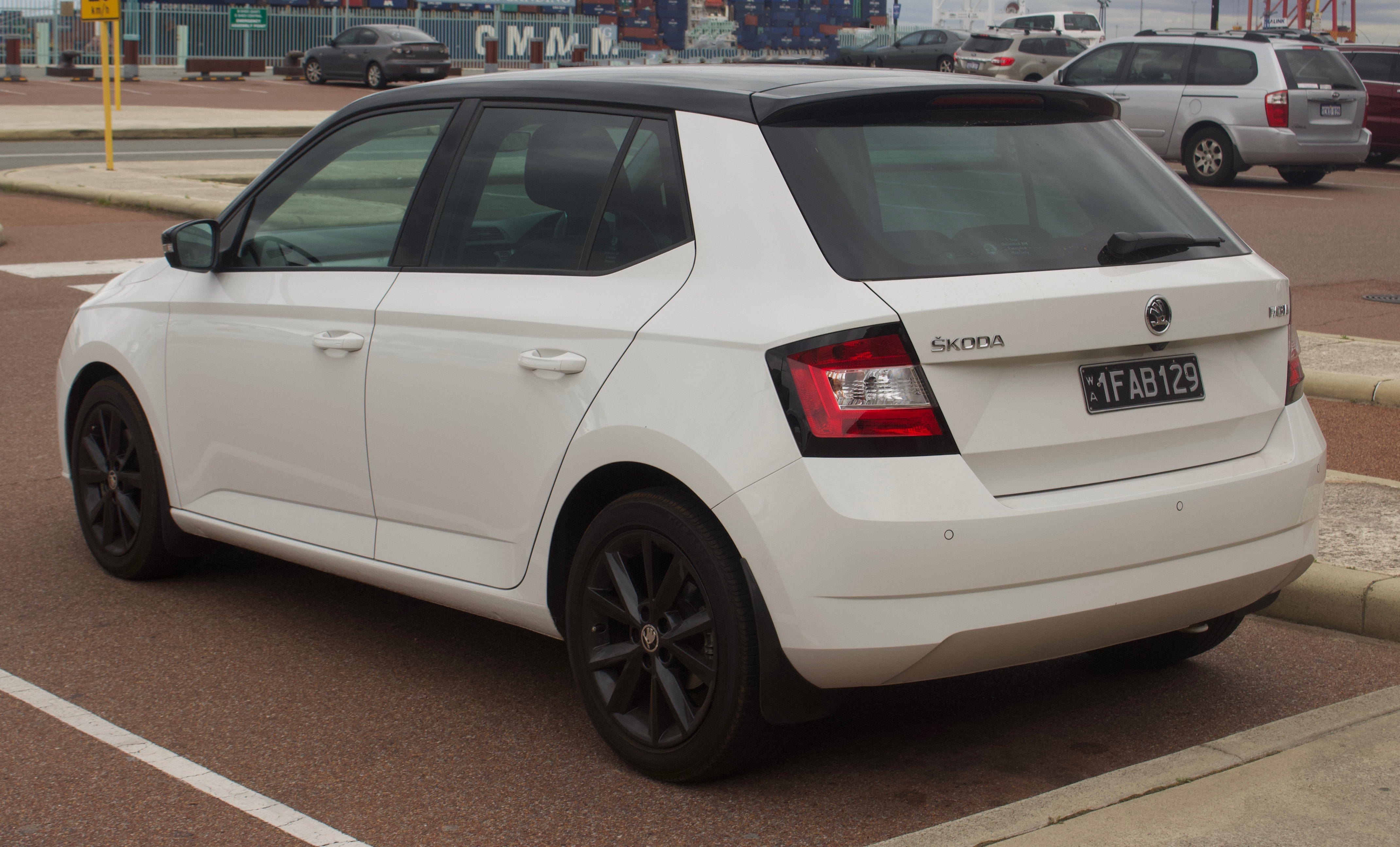 2018 Skoda Fabia (NJ MY18.5) 81TSI hatchback. Photographed in Fremantle, Western Australia, Australia